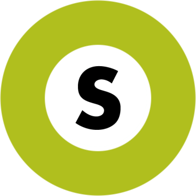 Line Symbol of the Toei Asakusa line